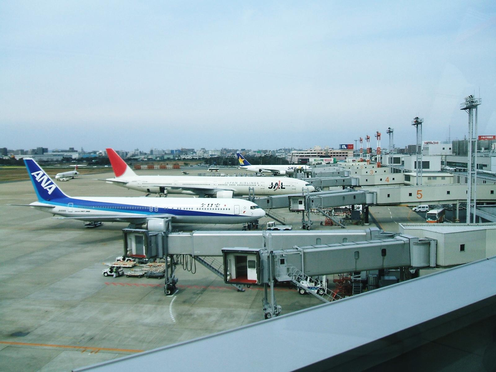 Gates 1 through 6 at Terminal 3 Apron at Fukuoka Airport